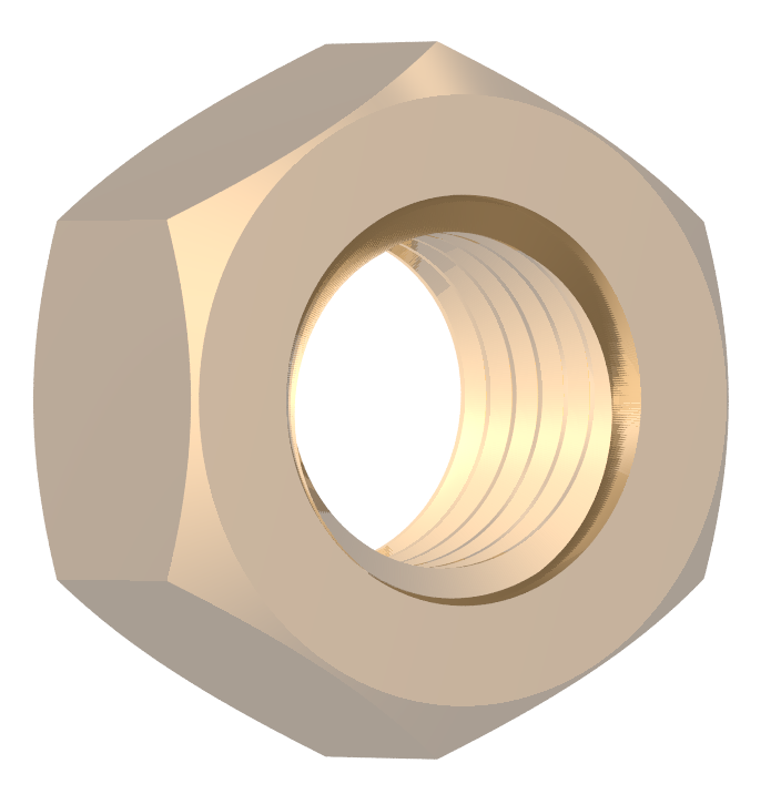 A nut...